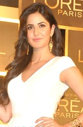 Katrina Kaif launching L'Oréal's 6 Oil Nourish